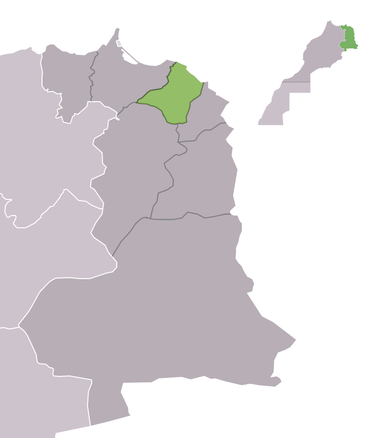 Berkane province, Oriental Region, Morocco